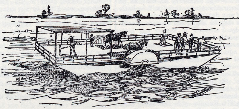 The first ferry horse boat in Toronto, Canada. The ferry originally plied the Niagara River, but was purchased to ferry passengers between Toronto and the Island. Under the command of L. J. Privat, it was called the Peninsula Packet (although commonly at that time referred to as an island, the Toronto Islands were still a peninsula in the early 19th century), but she was most commonly known as "the horse boat". The vessel was taken off the route in 1850.